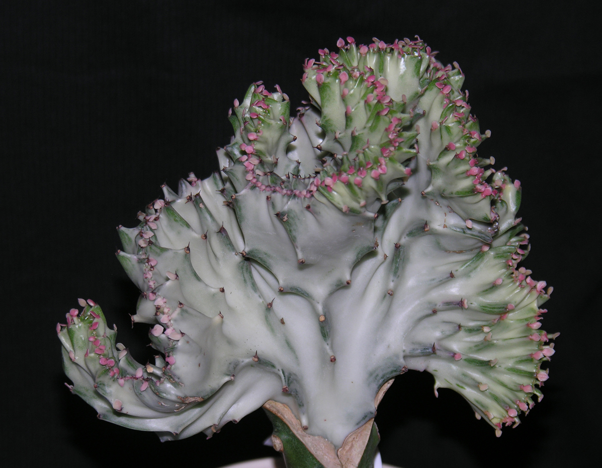 This is a photograph of a fasciated spurge, Euphorbia lactea fa. cristata.